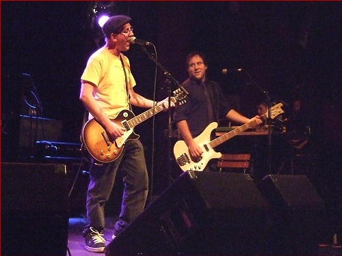 Abdoujaparov performing in Hamburg at the Knust